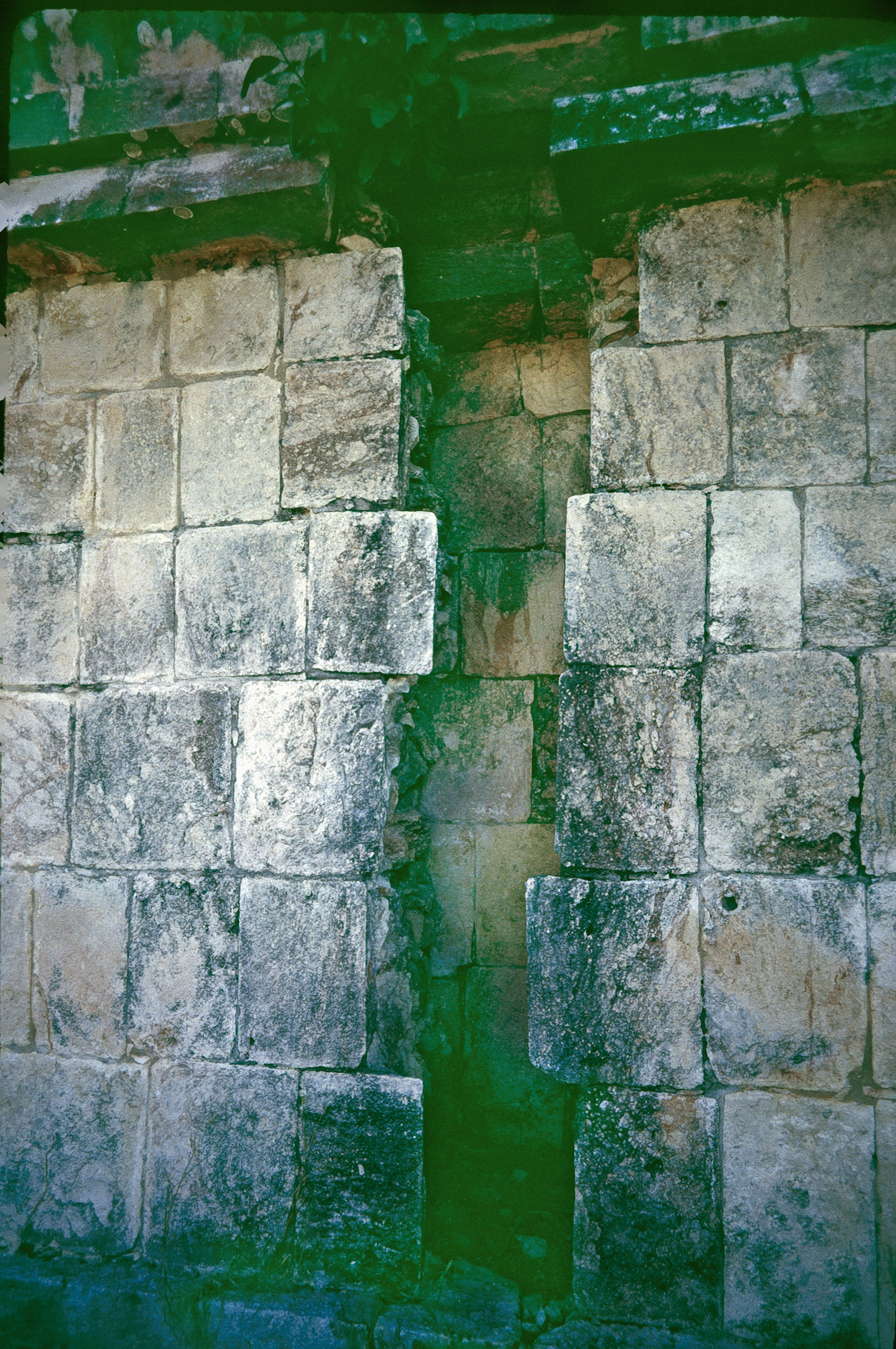 Uxmal, Yucatan, Mexico: Monjas, north building, earlier facade behind present one